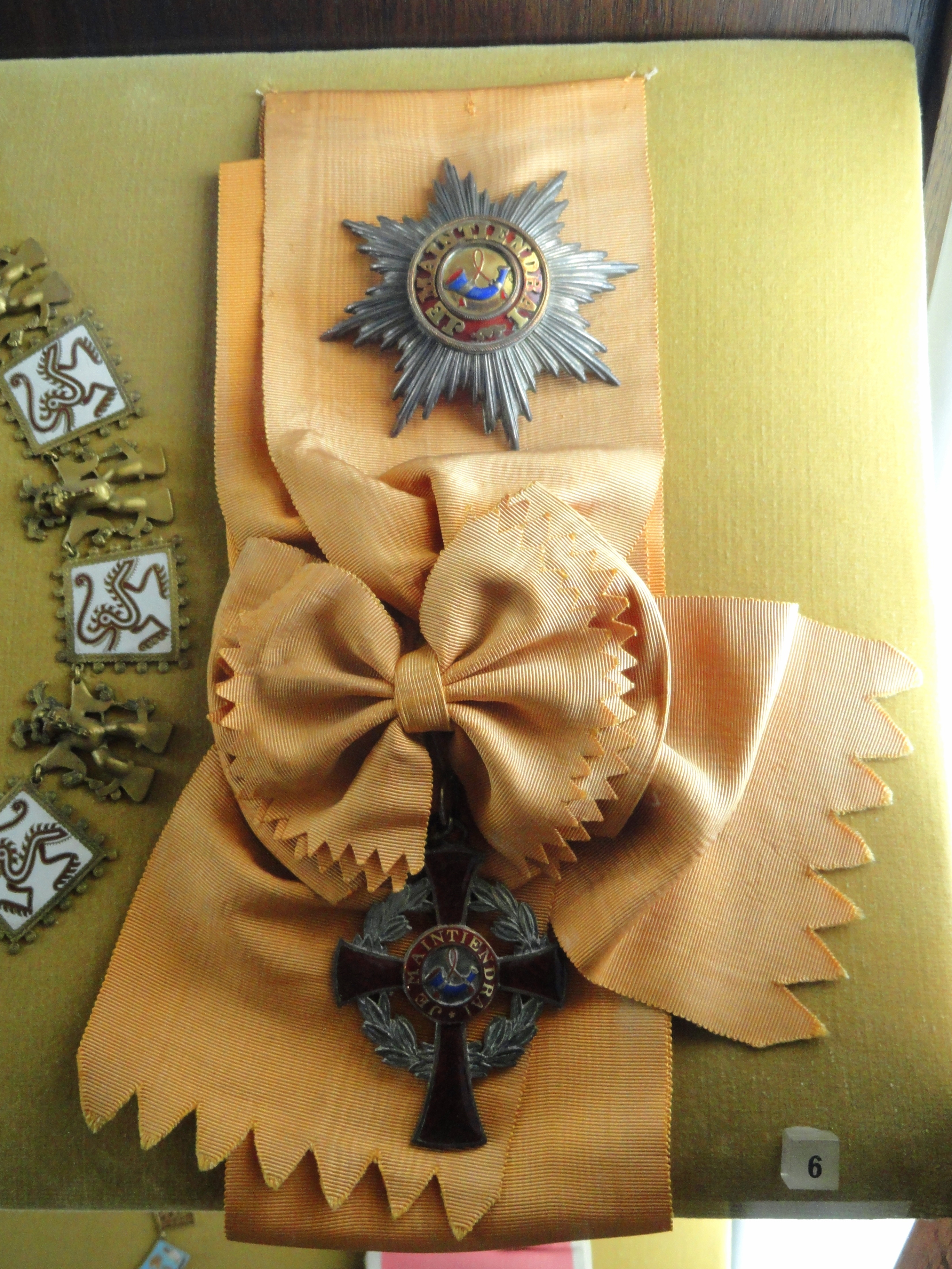 IExhibit in the Memorial JK, Brasília, Brazil.